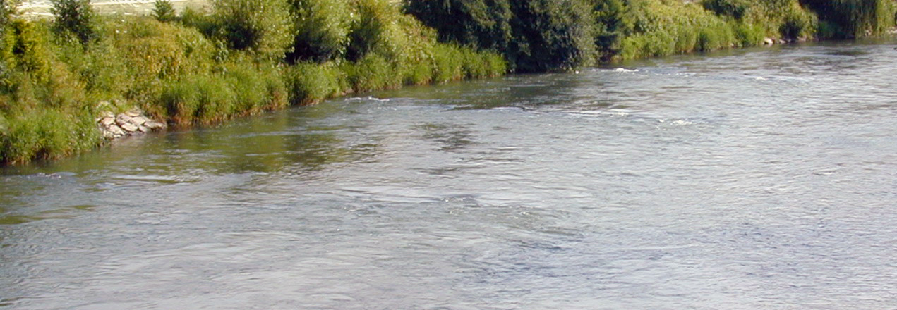 micro groins